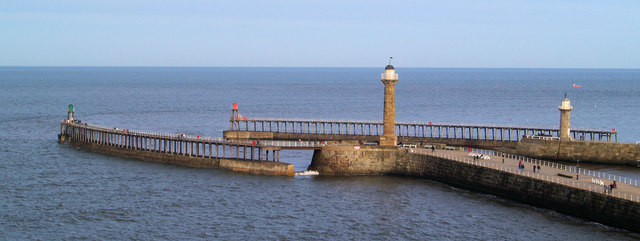 All the 4 Whitby lights Established 1831 (west), 1855 (east),both deactivated in 1914 when the 2 smaller pier lights were activated.